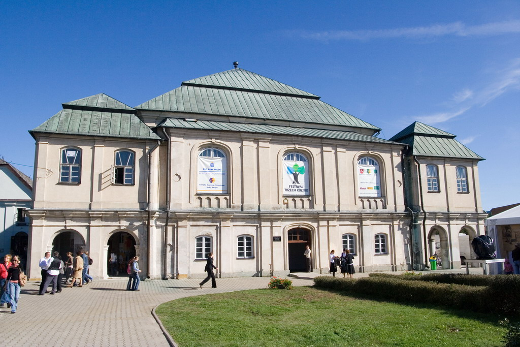 Great Synagogue in Włodawa (Poland) during the Three Cultures Festival.